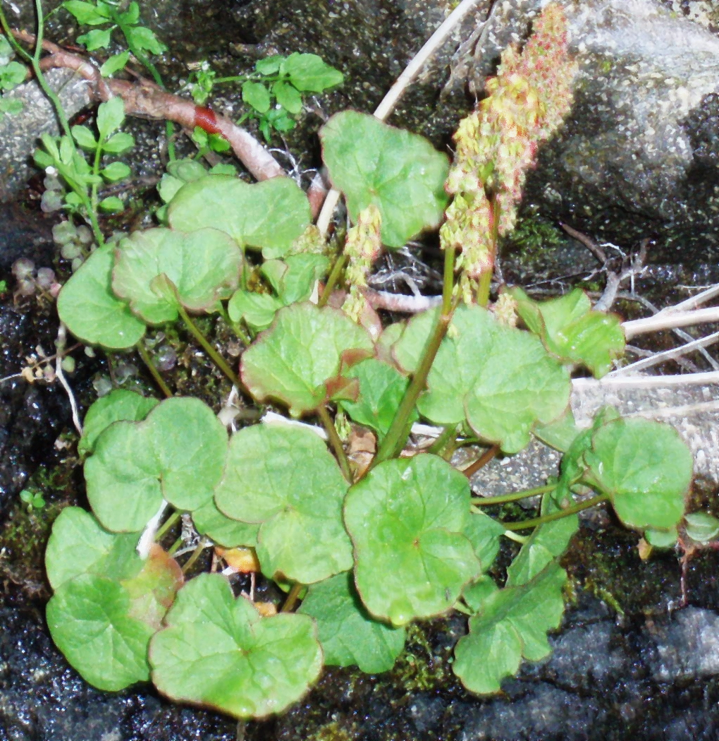 Oxyria digyna on the Faroe Islands